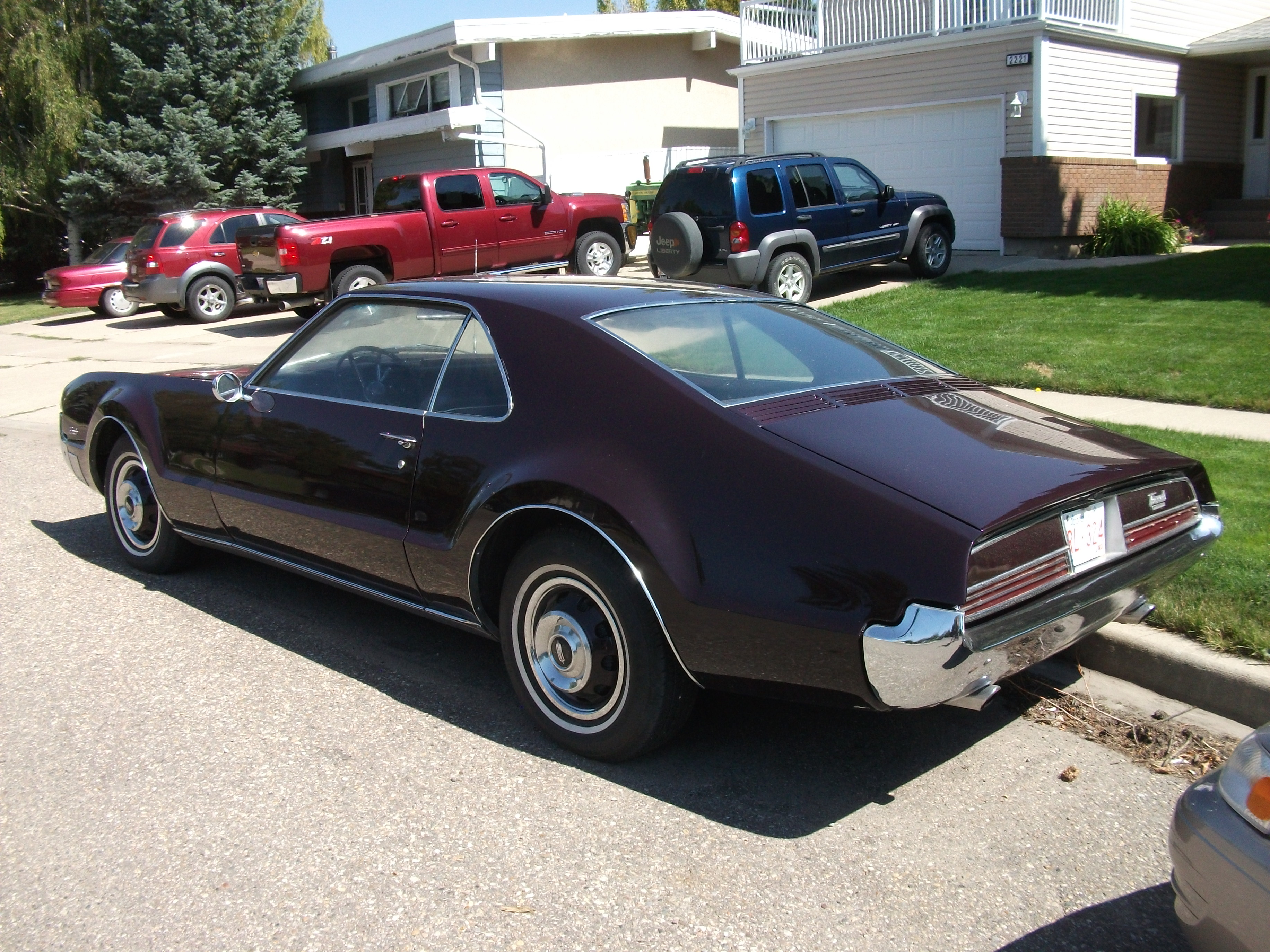 First generation front wheel drive Oldsmobile Toronado.